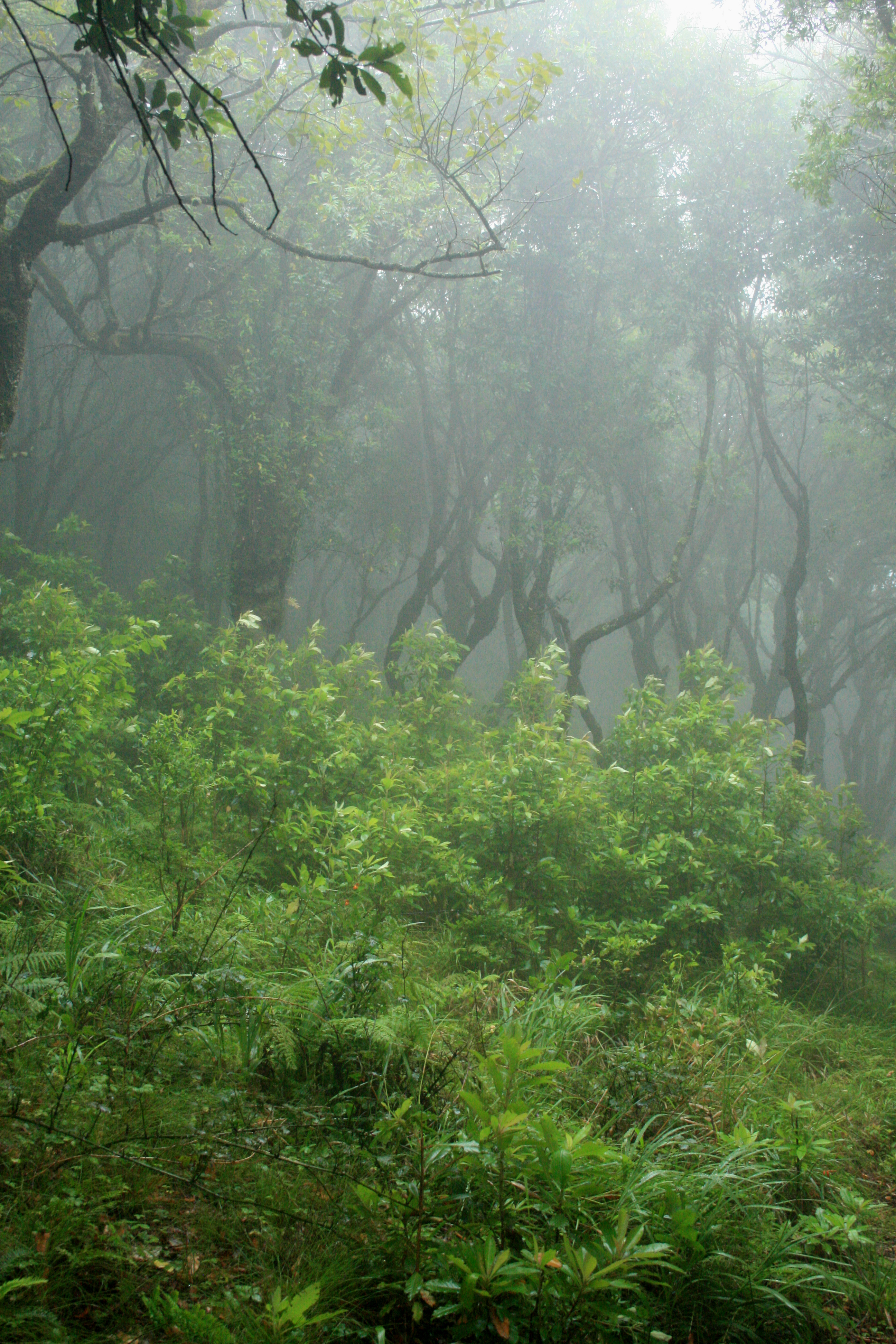 Laurisilva in Madeira on ER 104 road.